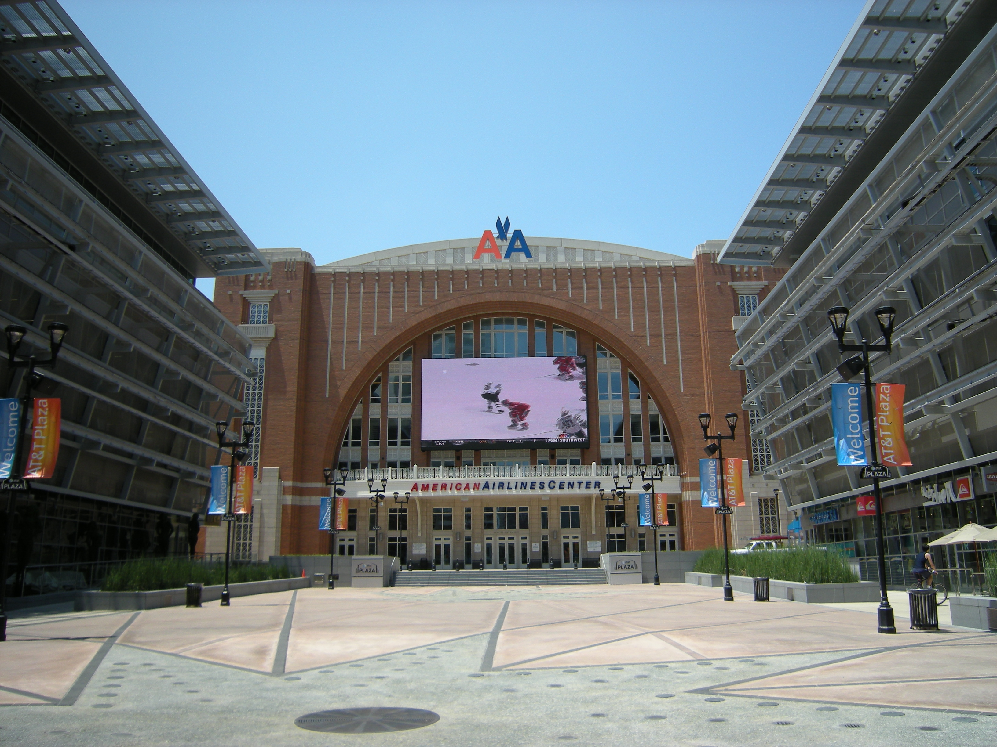 American Airlines Center (arena), Dallas, Texas, seen from AT&T Plaza.